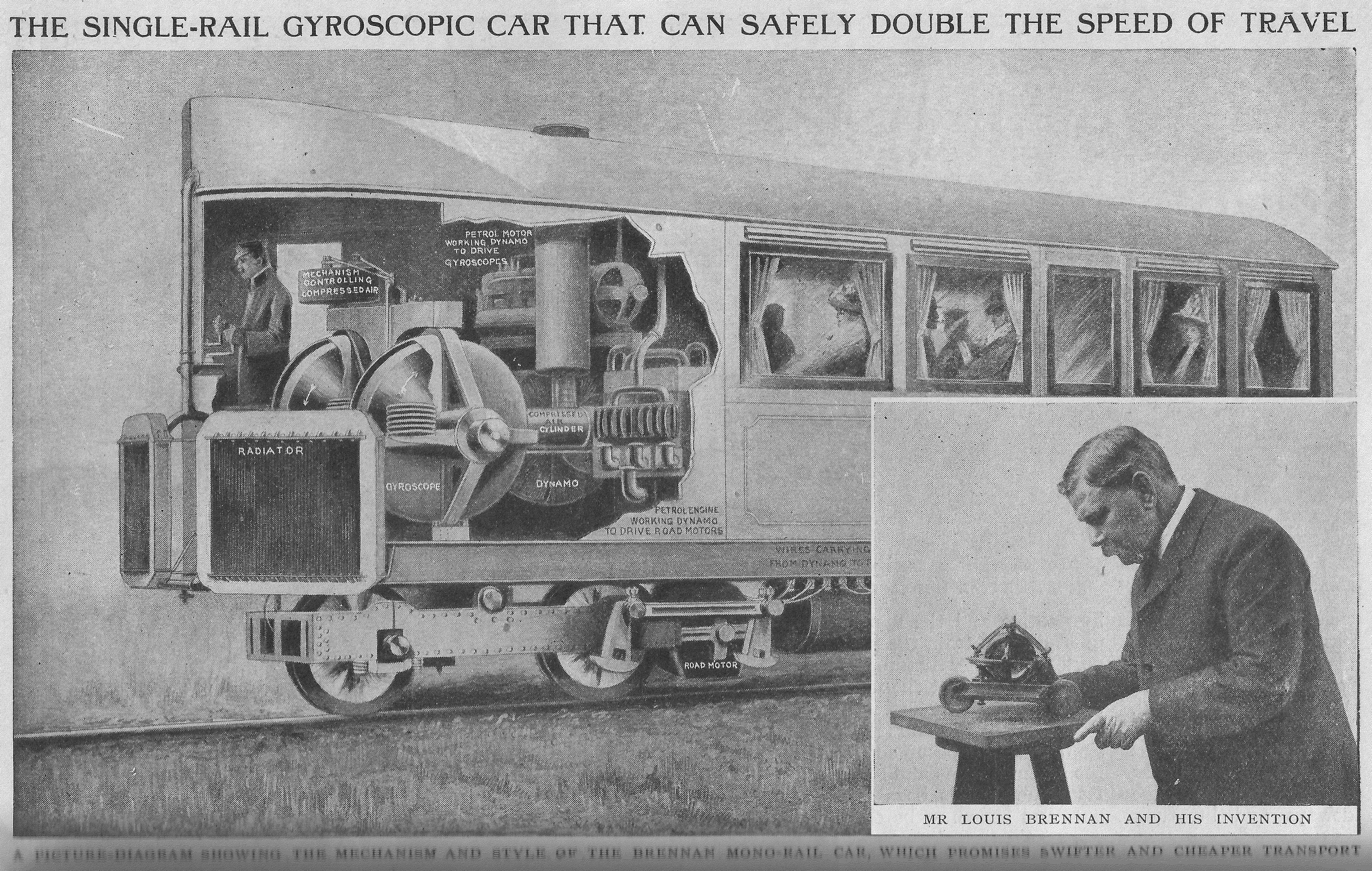 Harmsworth Popular Science (c.1913, Vol.3, p.1684):A picture digram showing the mechanism and style of the Brennan Monorail car which promises swifter and cheaper transport. Inset from following page:Mr Louis Brennan and his invention